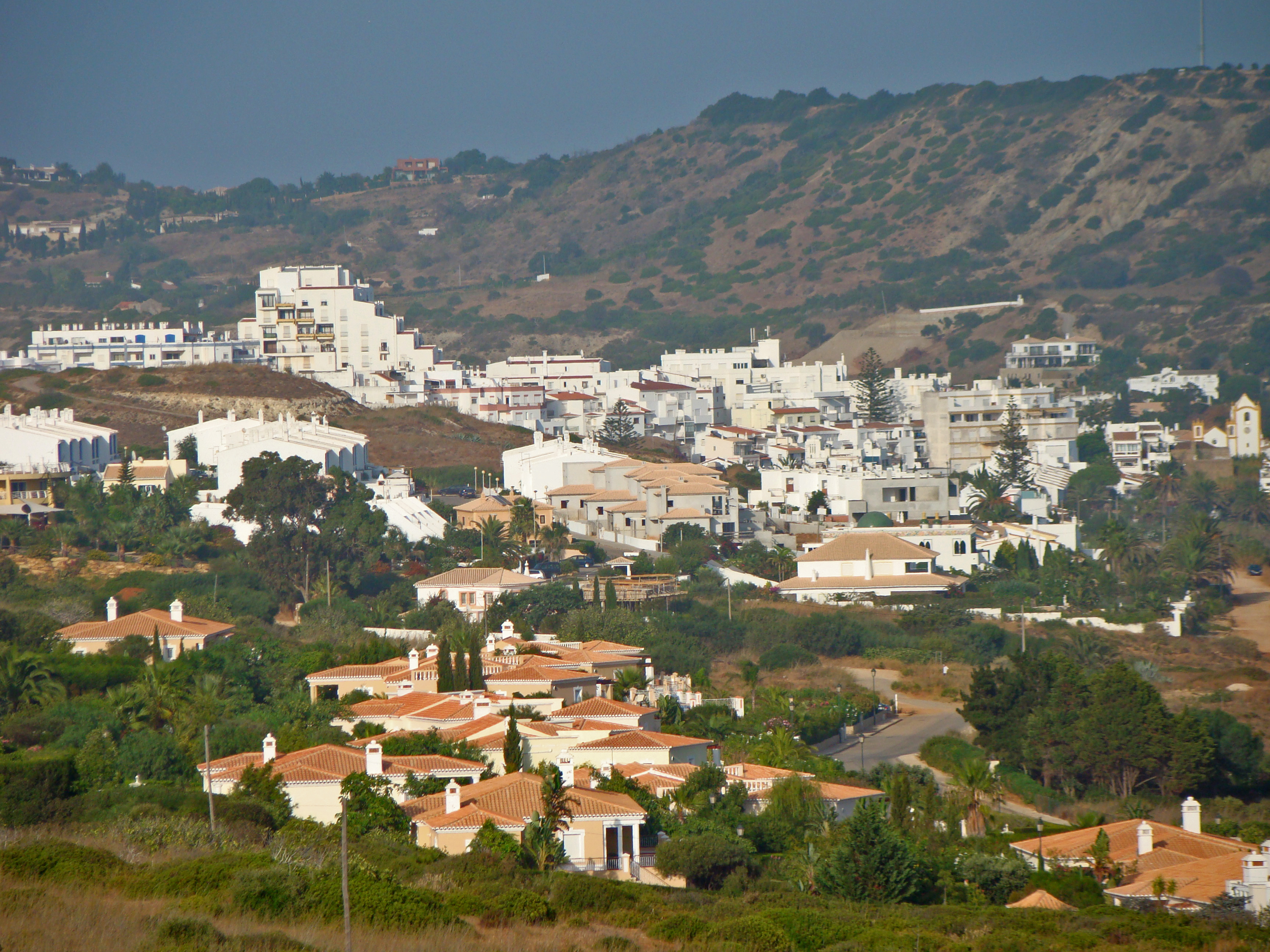 Partial view of Praia da Luz